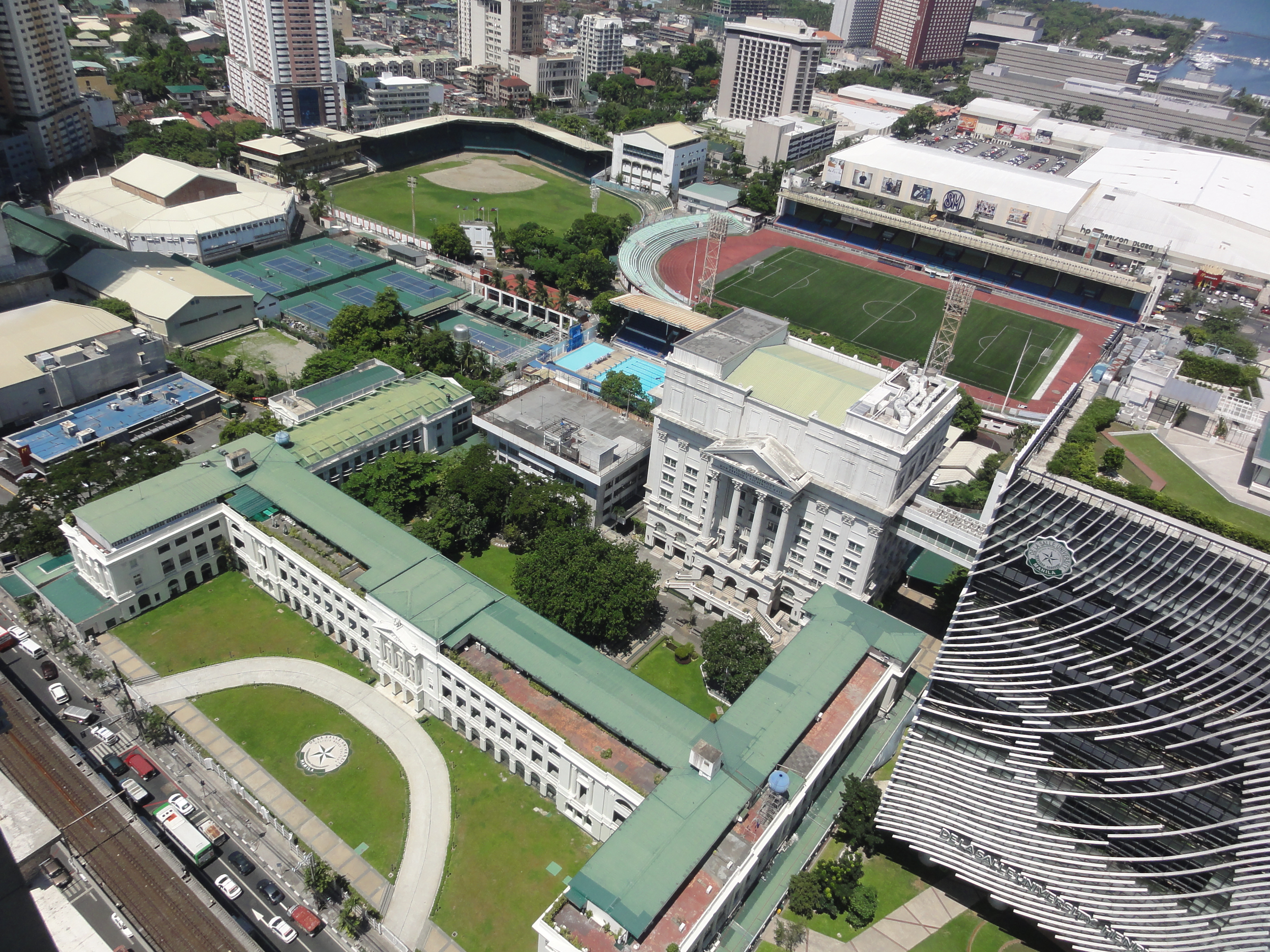 Aerial shot of De La Salle University (DLSU), Rizal Memorial Sports Complex and Harrison Plaza in Malate District, Manila